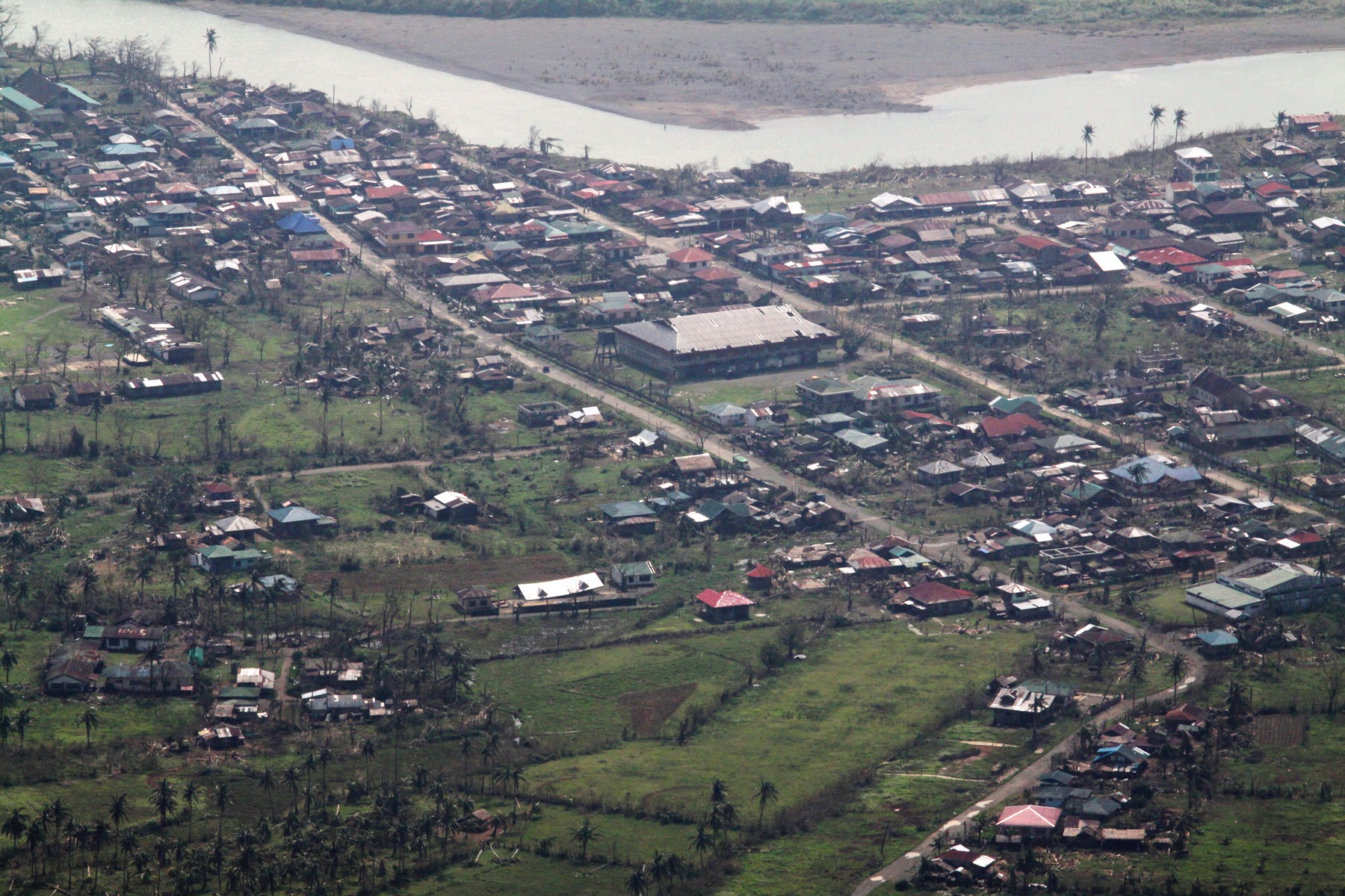 Buildings and roads in the Philippine town of Palanan are visible from a P-3C Orion aircraft carrying U.S. Sailors Oct. 22, 2010. The Sailors, from Patrol Squadron (VP) 9, were assessing damage done by Super Typhoon Megi to the town and surrounding areas in northern Luzon, a region heavily affected by the storm.